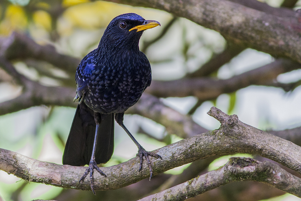 The species Blue-Whistling Thrush has been photographed during the bird photography tour of GoingWild in East Sikkim, India in the month of May 2014.